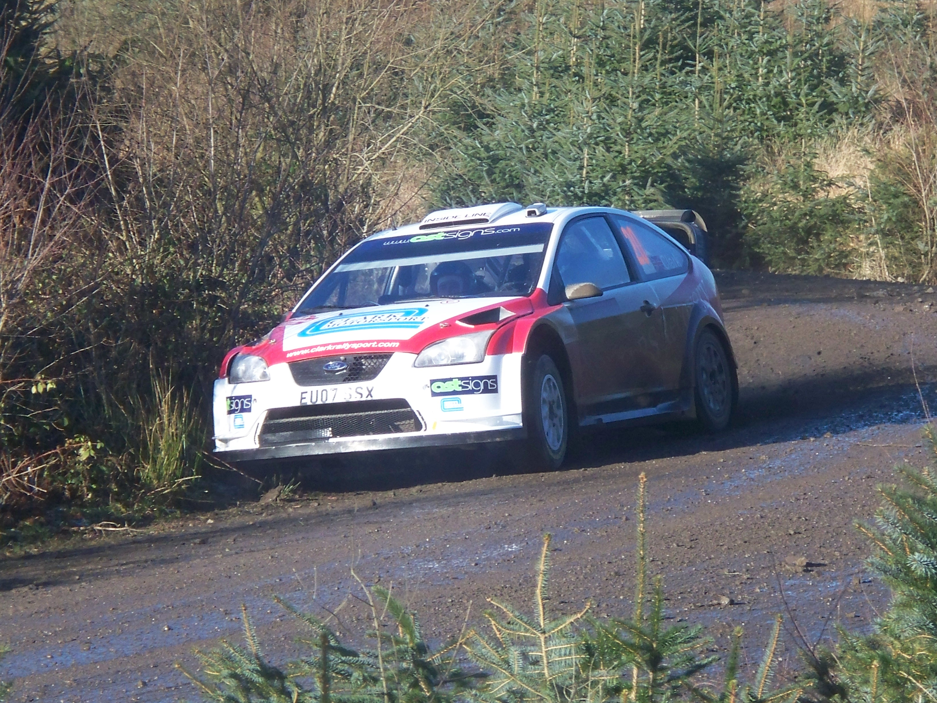 Barry Clark at the Rheola stage of Wales Rally GB 2008